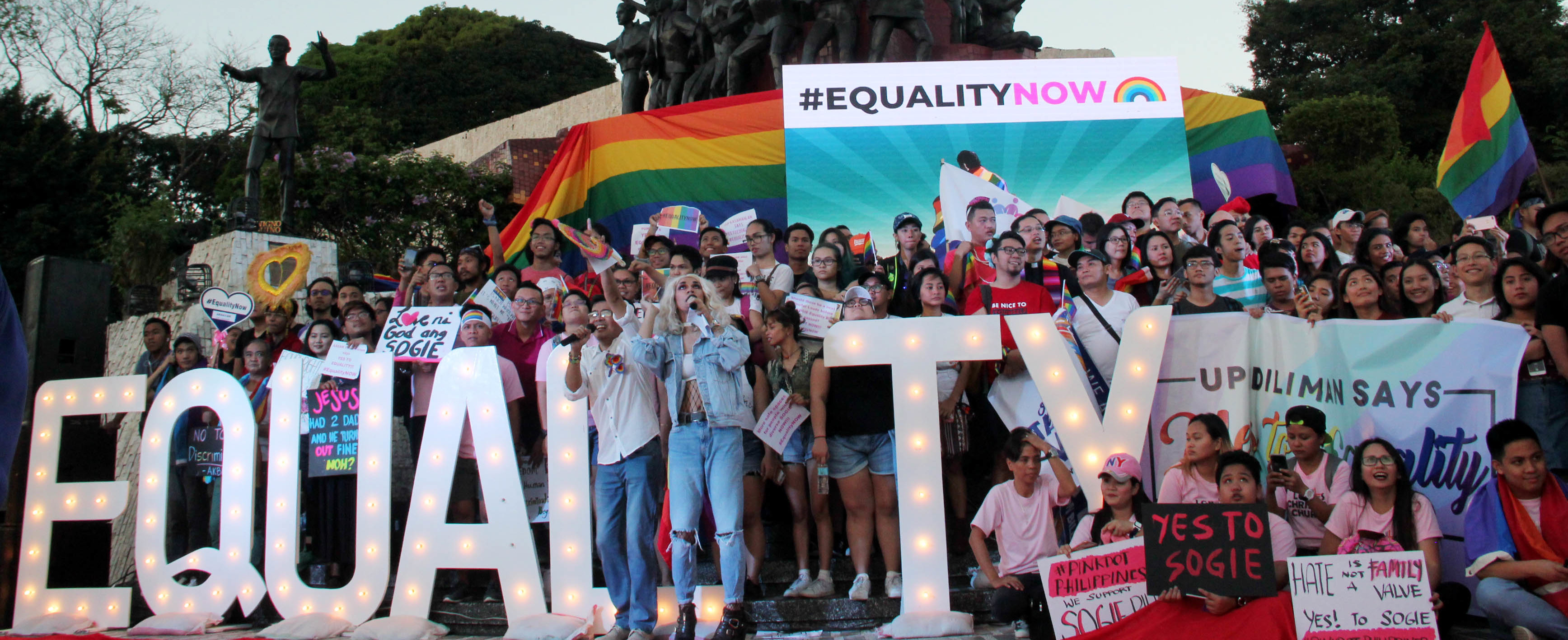 LGBT (lesbian, gay, bisexual and transgender) advocates gather at the EDSA People Power Monument on Saturday (March 17, 2018) to support the passage of the Sexual Orientation and Gender Identity and Expression (SOGIE) equality bill